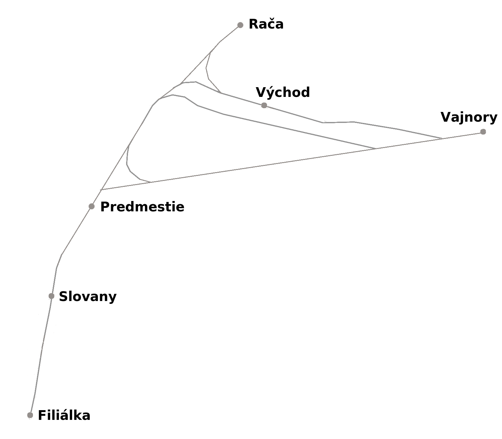 Bratislava local railways